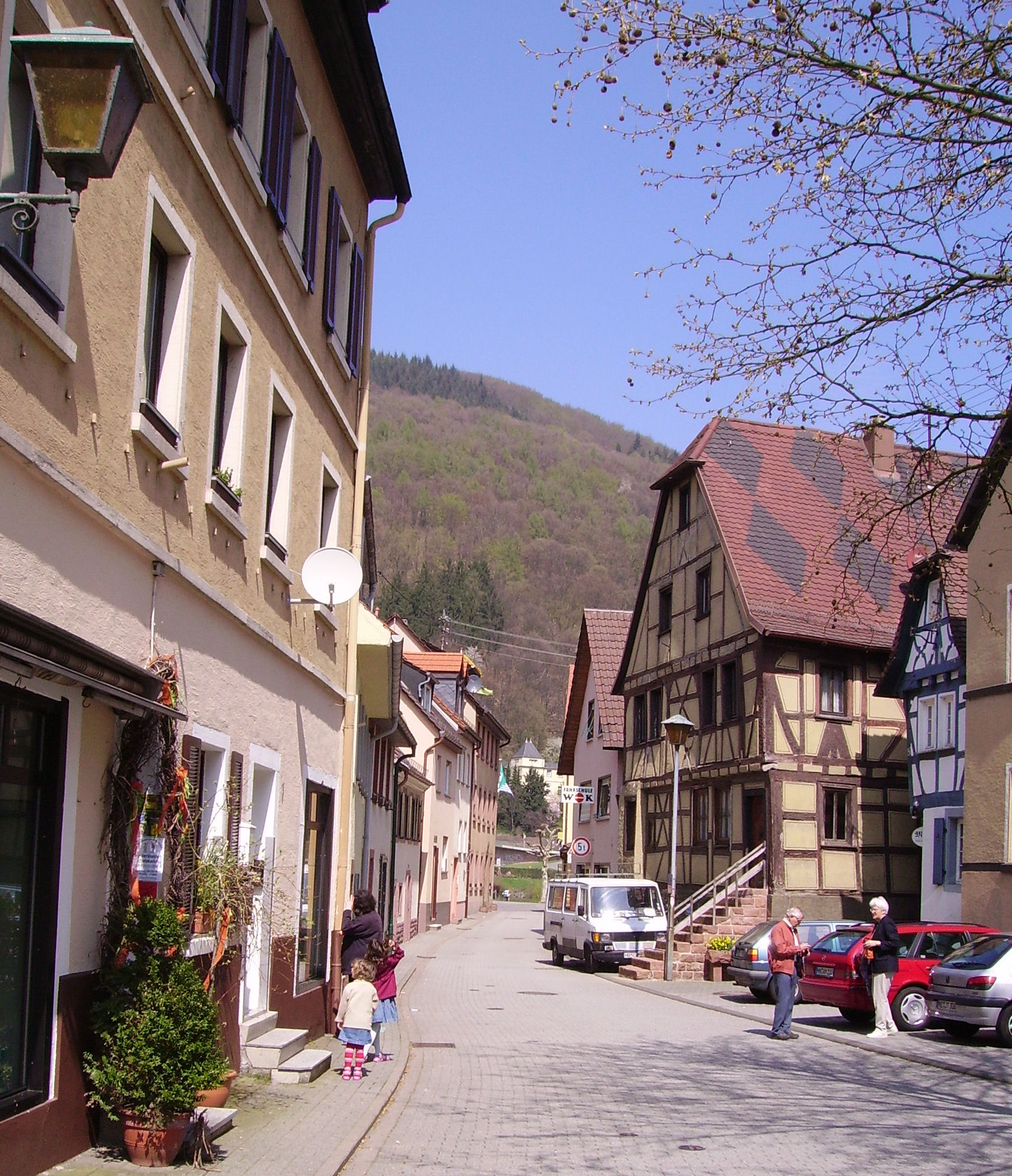 Am Hanfmarkt in Neckargemünd near Heidelberg, Germany.